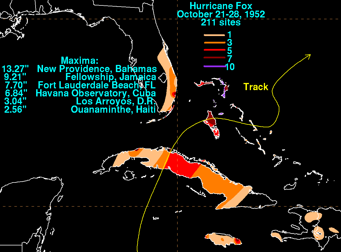 Rainfall produced by Hurricane Fox during October 1952.